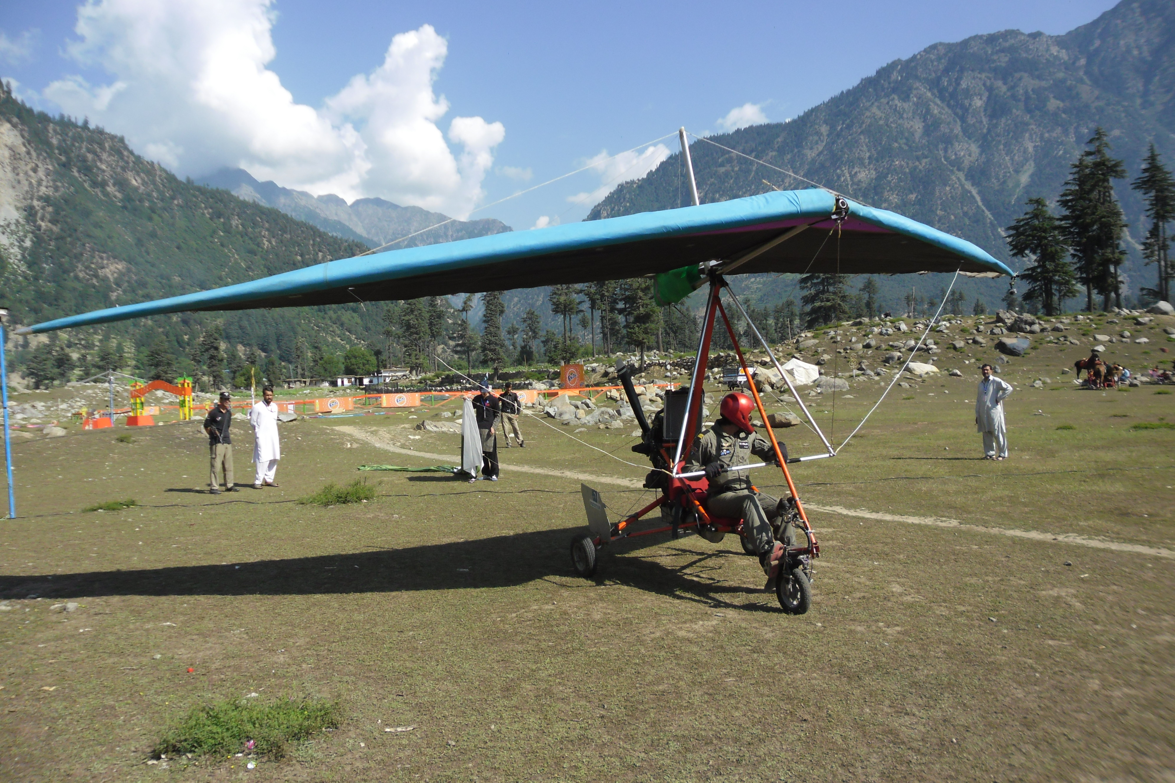 This picture was taken when i visited annual kalam valley festival in august/2014.